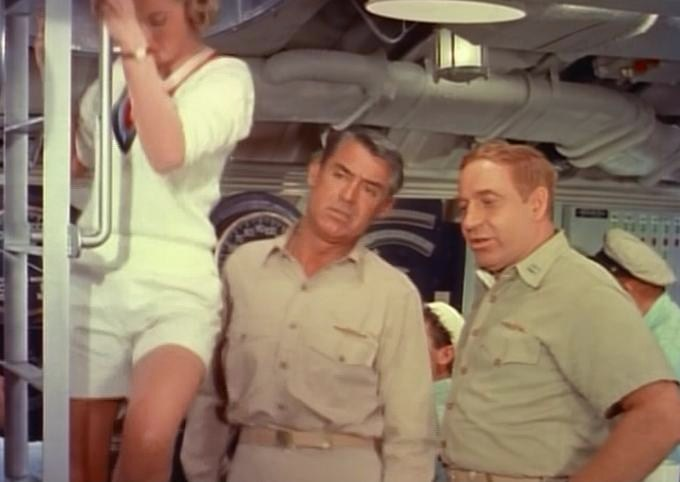 L. to R. : Dina Merrill, Cary Grant & Robert Gist in Operation Petticoat - trailer (cropped screenshot)